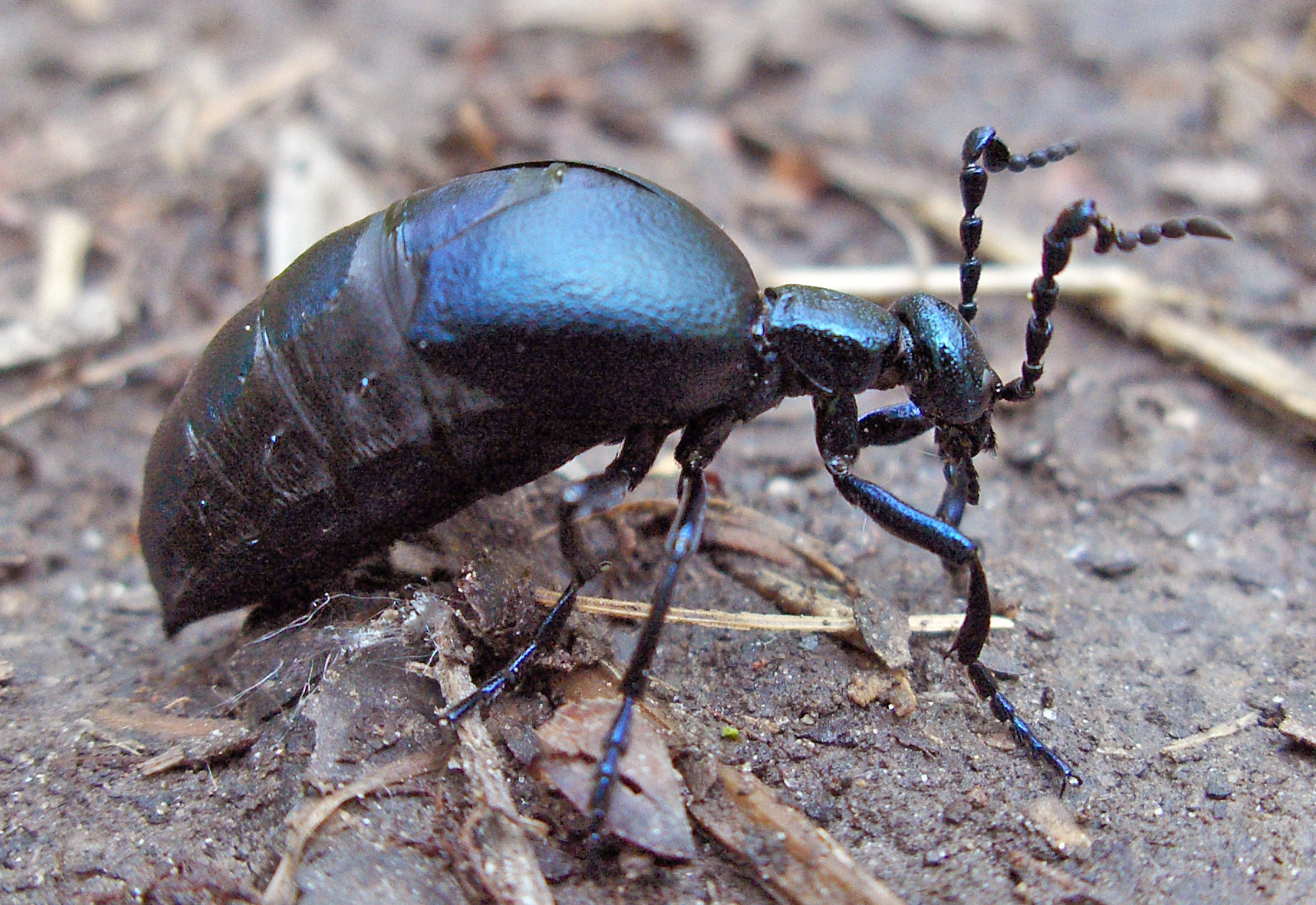 Own photo of Meloe, an oil beetle, in the Wiener Prater. Most likely Meloe violaceus.